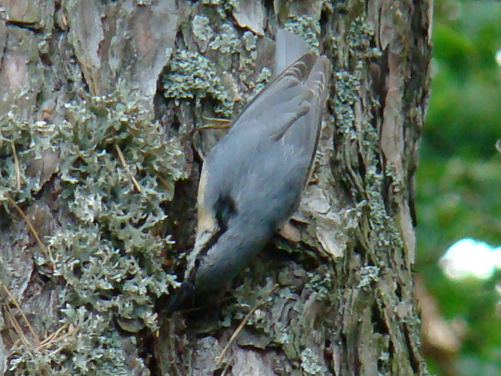 Photo of the Eurasian Nuthatch (Sitta europaea) in in Palanga, Lithuania.